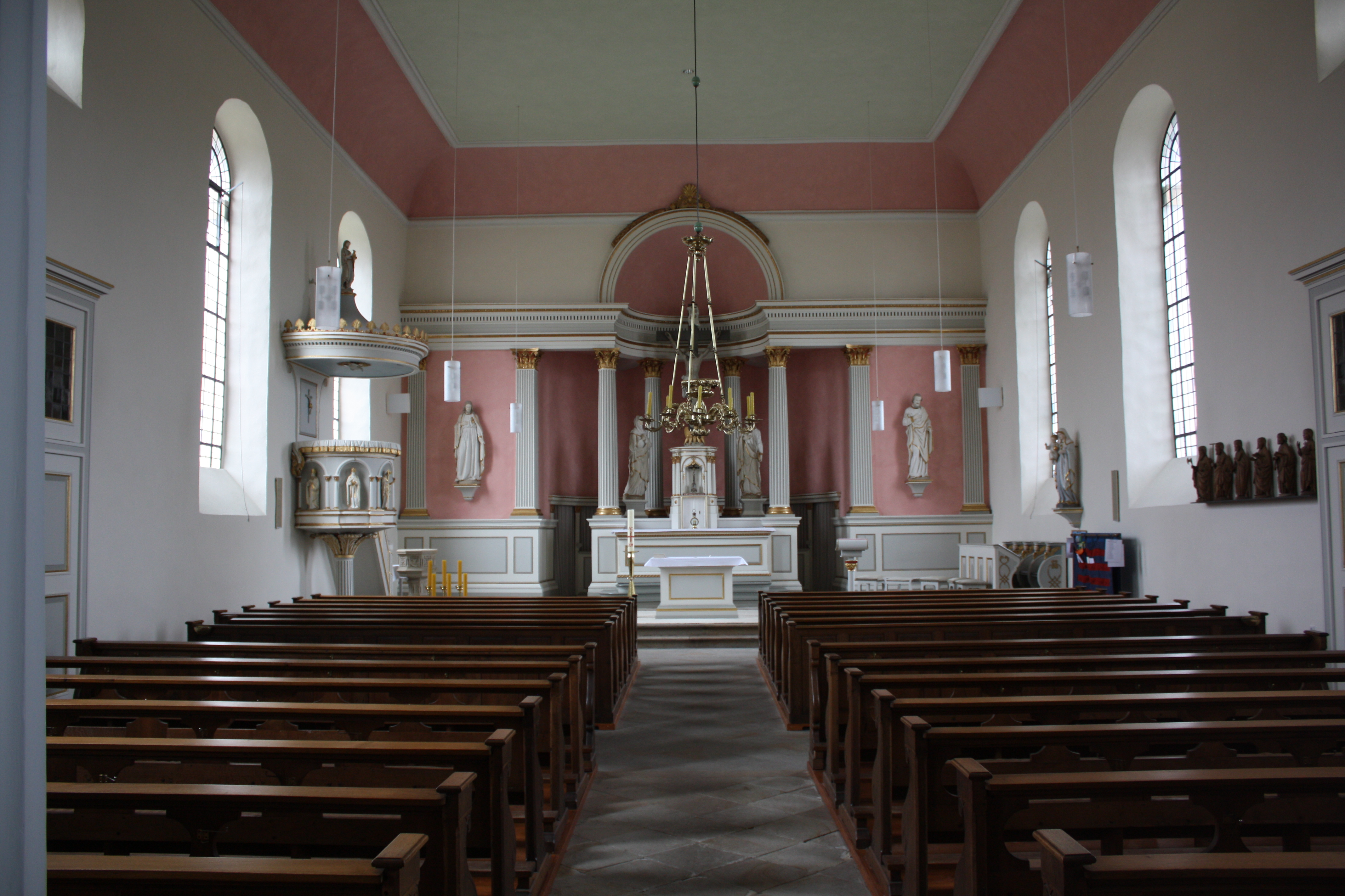 St. Johannes Baptist in Milte This photograph was taken with a Canon EOS 450D.